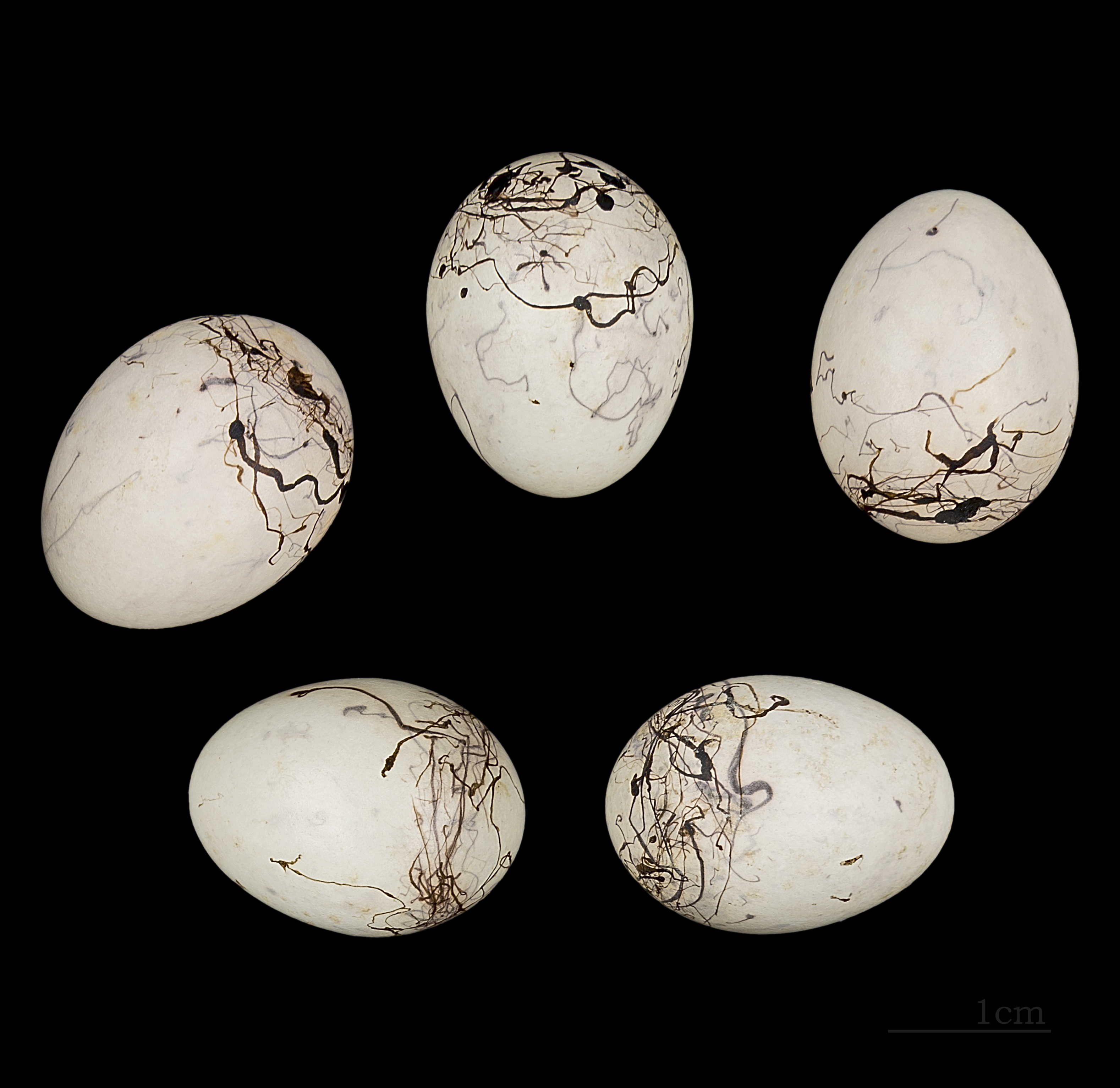 Egg of Rock Bunting. Collection of Jacques Perrin de Brichambaut.